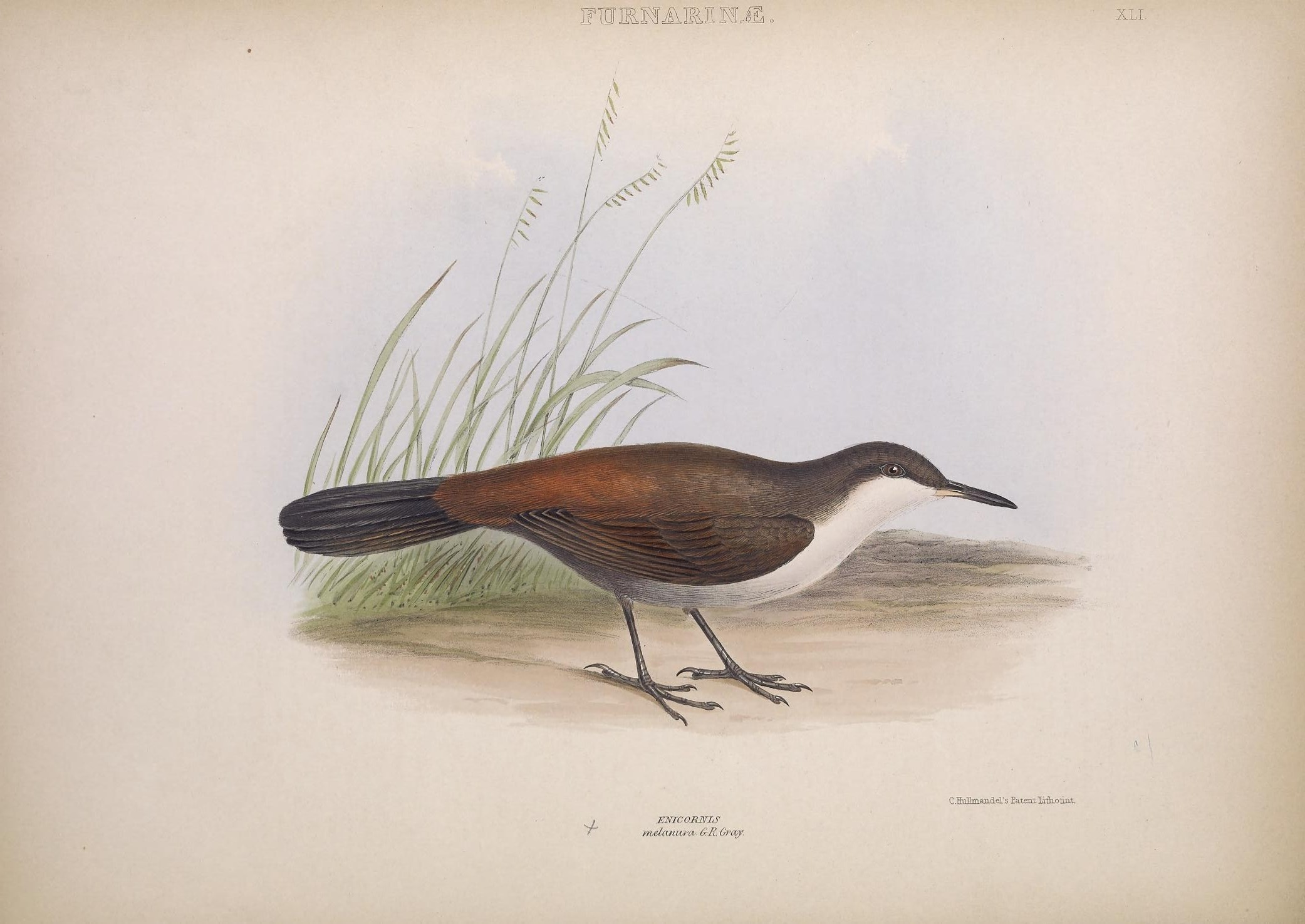 Enicornis melanura G.R. Gray = Ochetorhynchus melanurus, Crag chilia The Genera of Birds Vol 1 pl.XLI